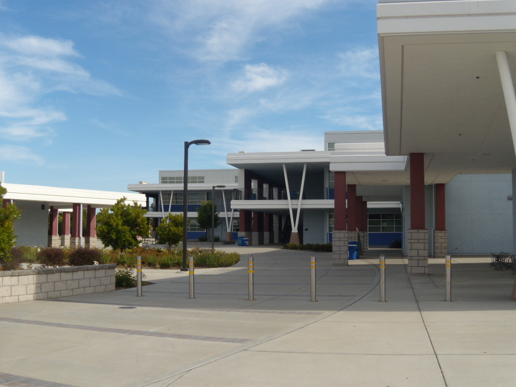 Entrance to Dublin High School